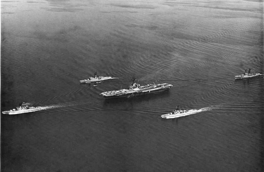 U.S. Navy ships of Antisubmarine Warfare Group 3 on 24 April 1971 when they were passing through the Sunda Straits, having a memorial service for the cruisers USS Houston (CA-30) and HMAS Perth (D29) that were sunk here on 28 February 1942. The follwing ships are visible (l-r): USS Bronstein (DE-1037), USS Meyerkord (DE-1058), USS Ticonderoga (CVS-14), USS Schofield (DEG-3), and USS John S. McCain (DDG-36).